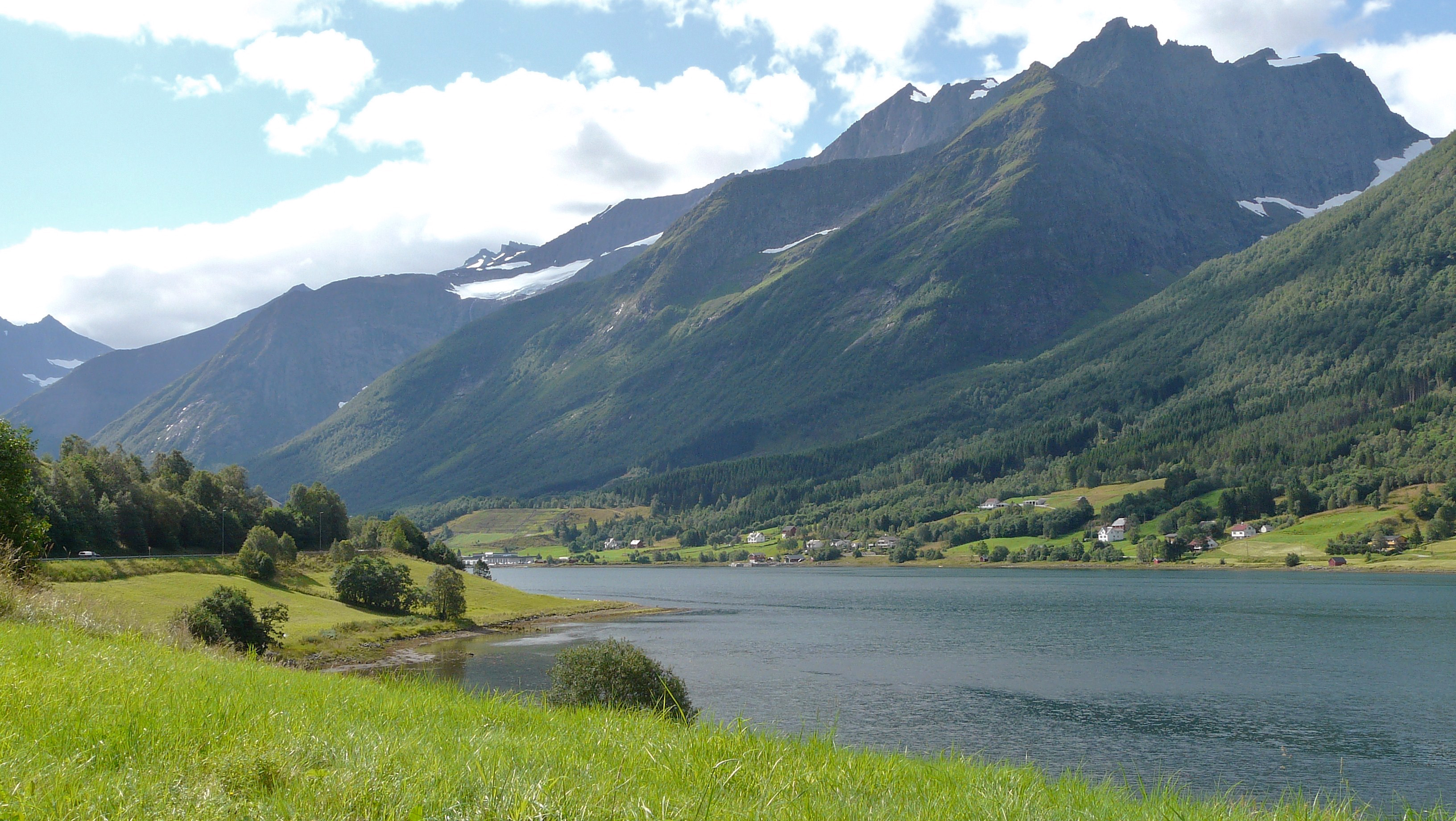 A view on the east coast of Sykkylvsfjorden in 2008 August. Trollkyrkjetindane in the background.